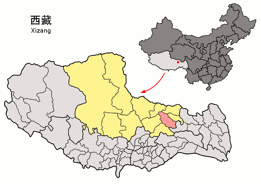 Location of Biru County (pink) and Nagchu Prefecture (yellow) within Tibet (Xizang) autonomous region of China